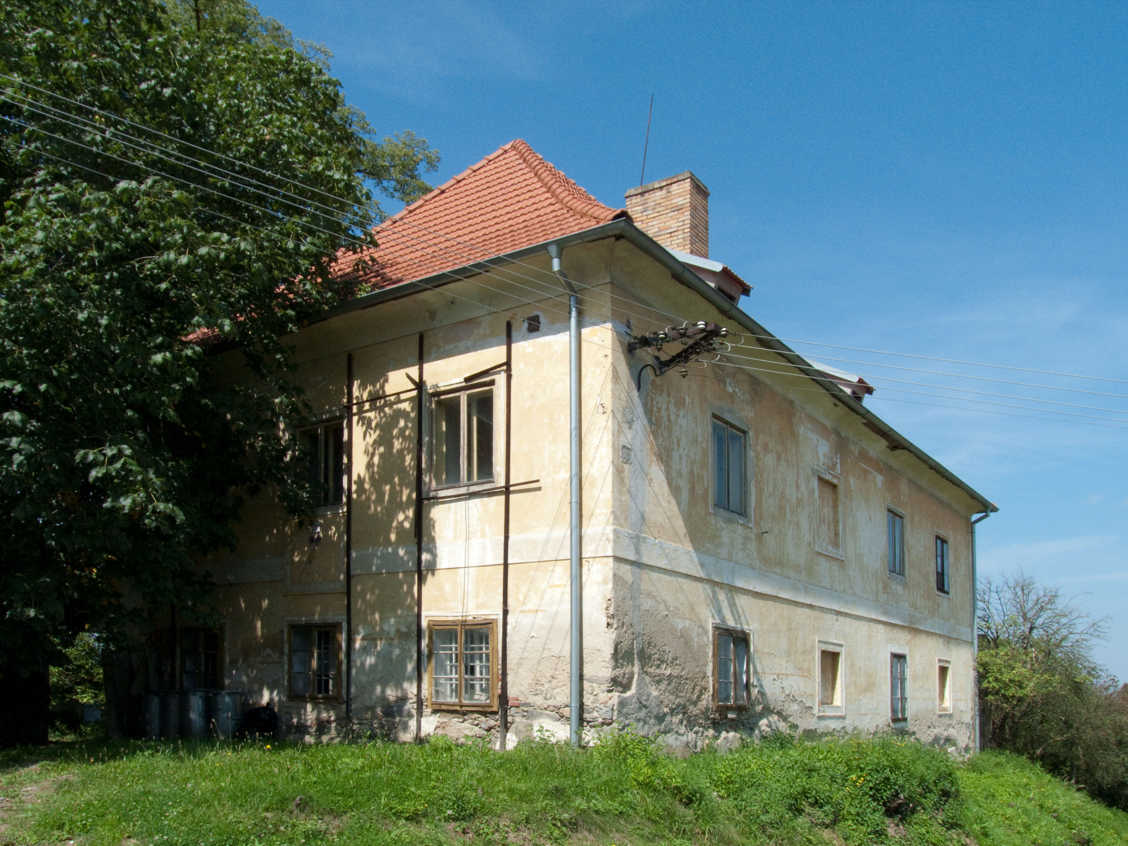 Rectory - building No 20 in Čakov, České Budějovice district, Czech Republic